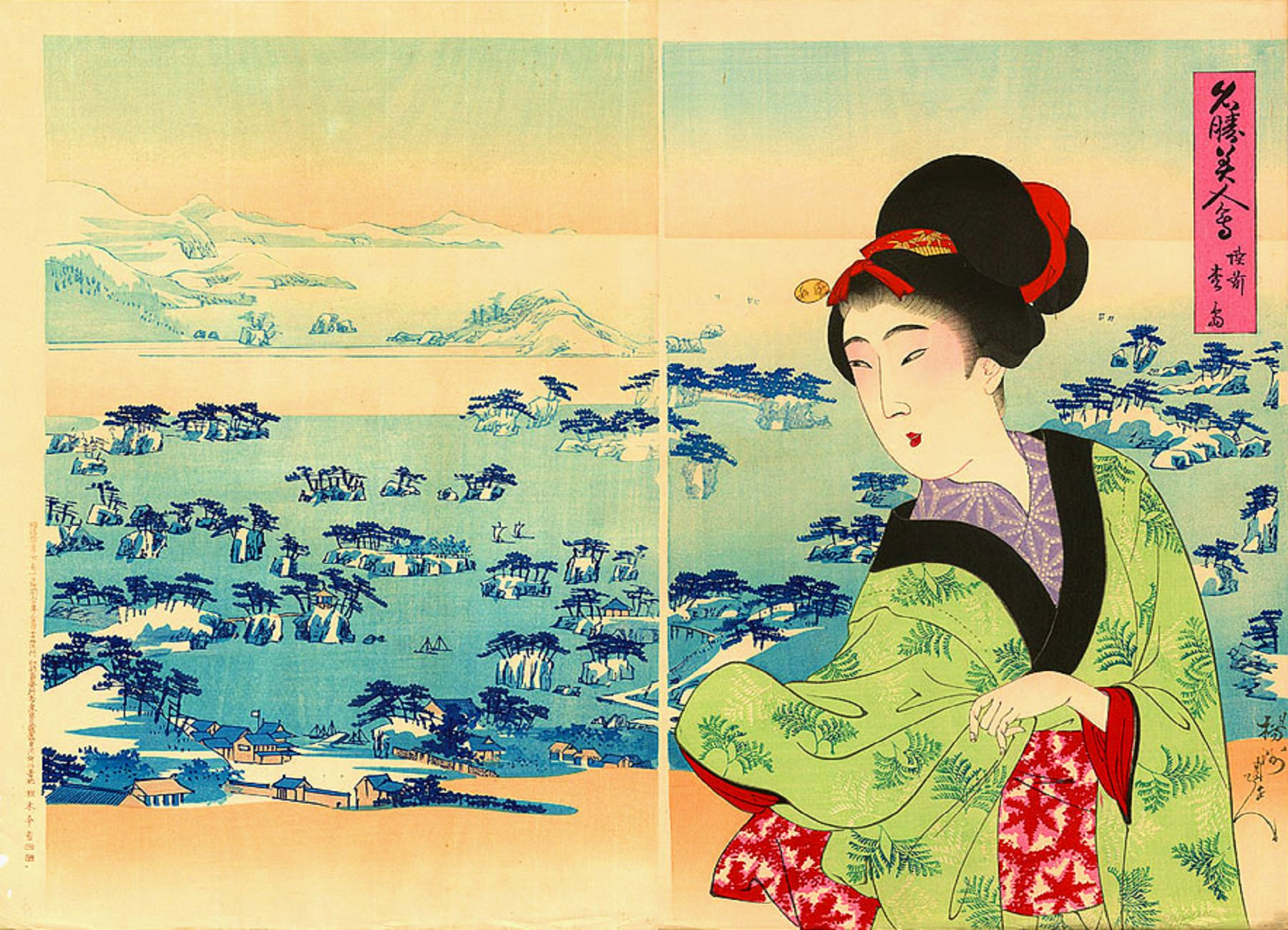 A bijin compared to the beauty of the pine covered islands at Matsushima in Rikuzen Province